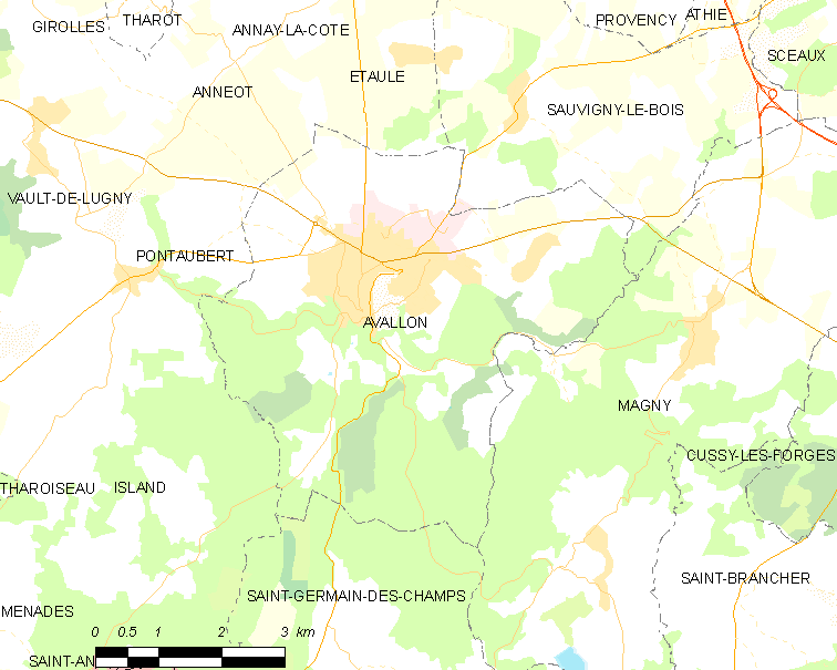 Map of French municipality Avallon